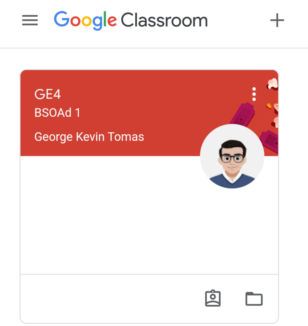 Google classroom is designed for teacher's and students to communicate to each other through Google classroom so every student's and teacher dont hace to waste paper for us to preserve our world.